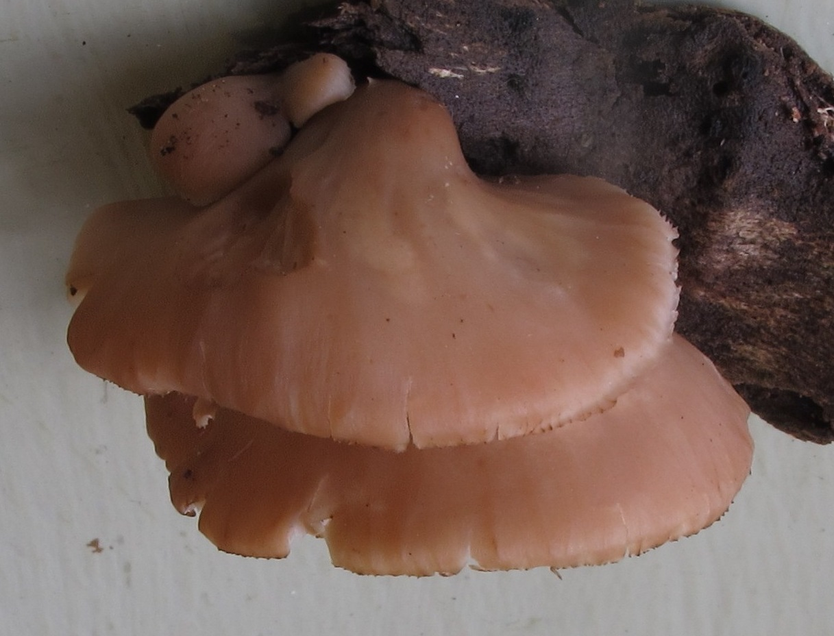 Lentinellus flabelliformis (Bolton) S. Ito